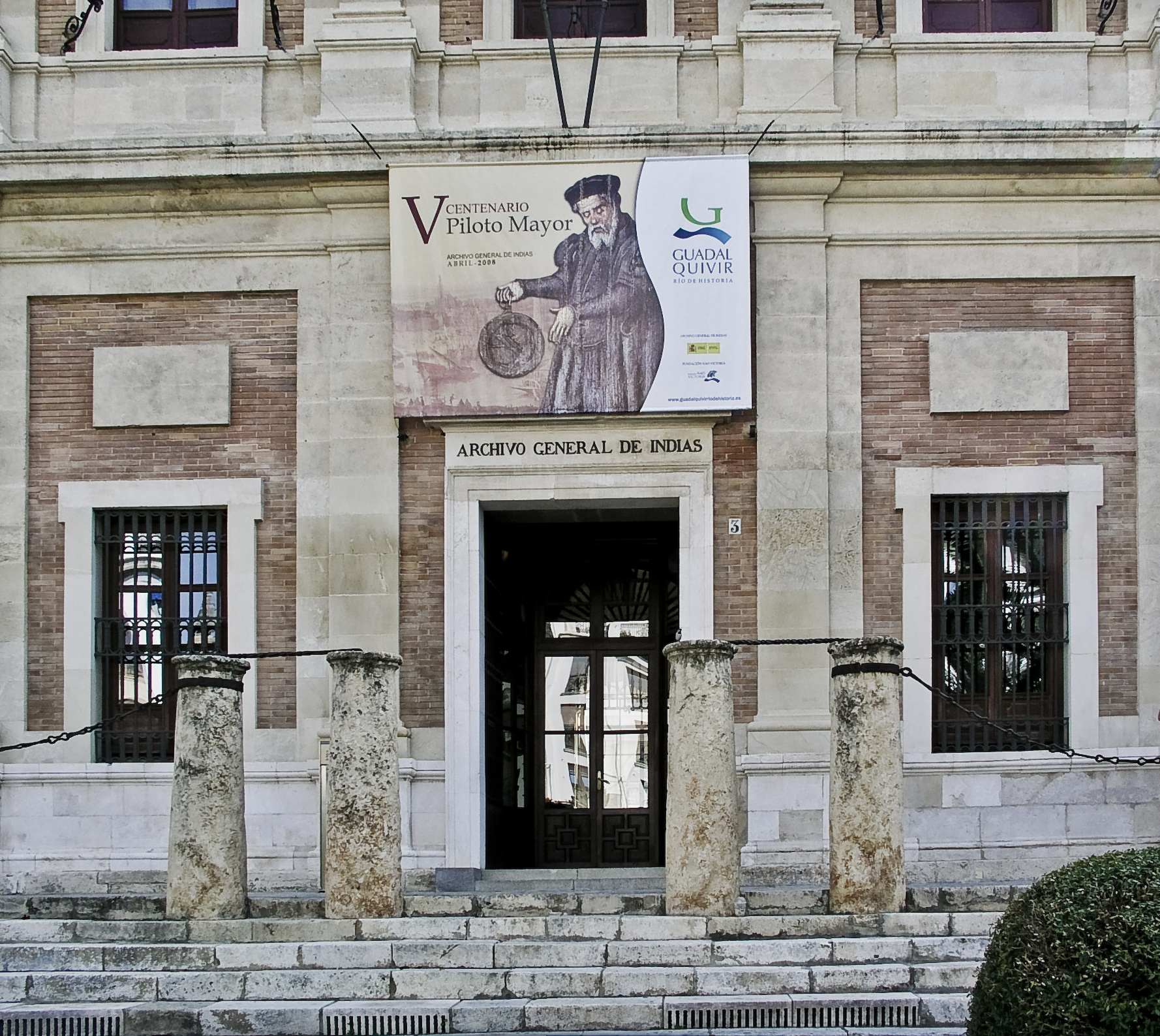 Archivo General de Indias, Seville, Spain. Entrance